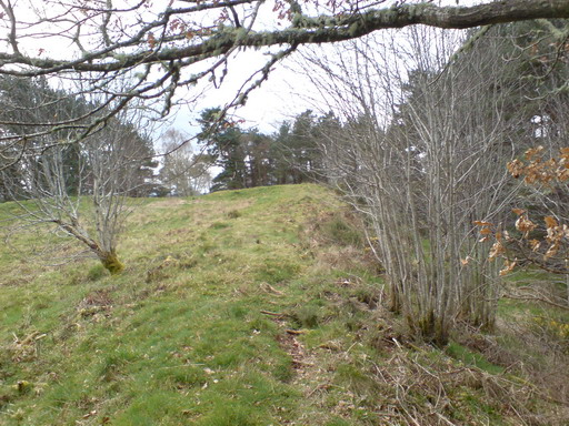 The old fort in Craig Phadrig Woods The south west corner of the old fort in Craig Phadrig Woods.